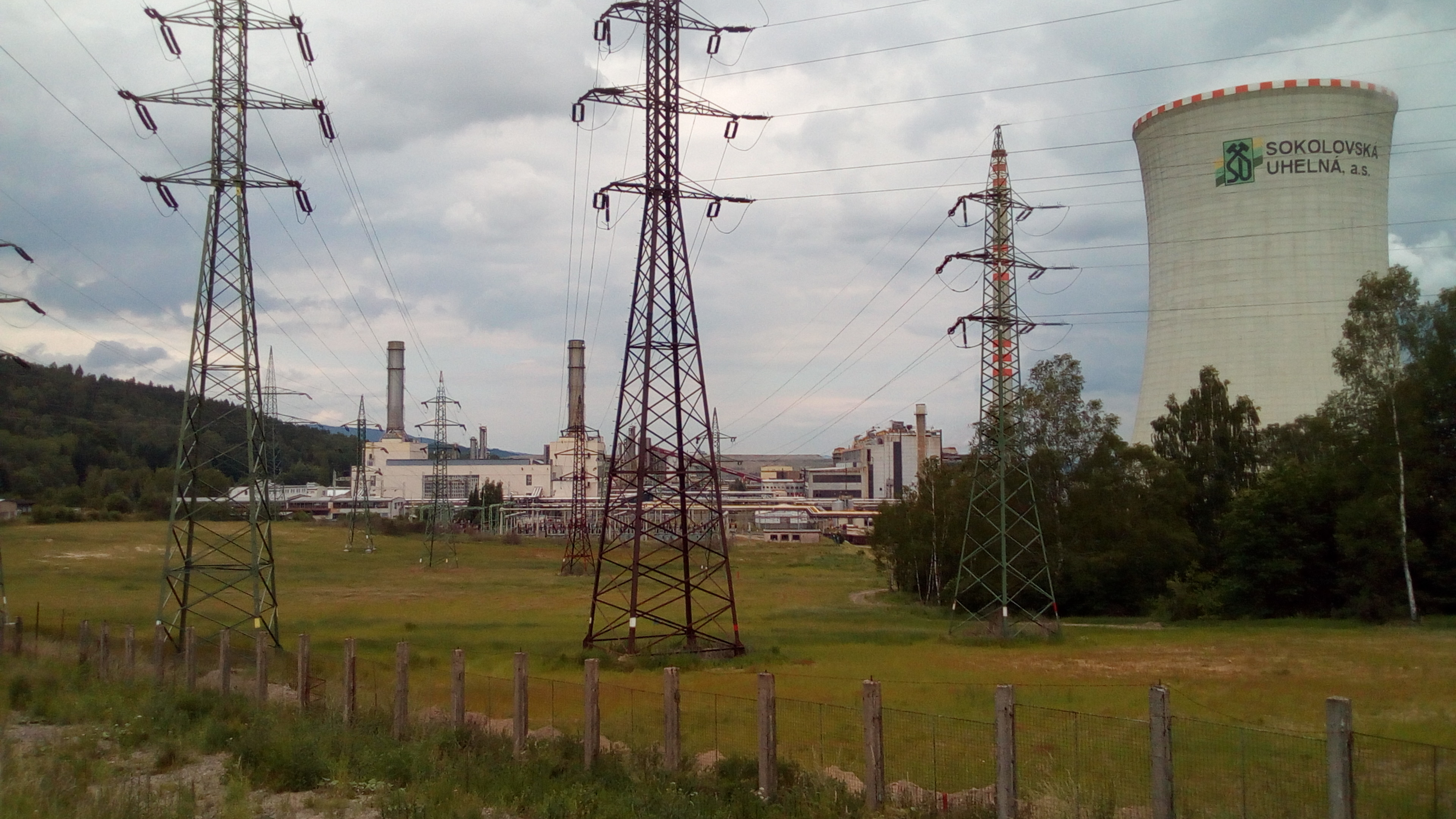 Power plant and chemical factory in Vřesová